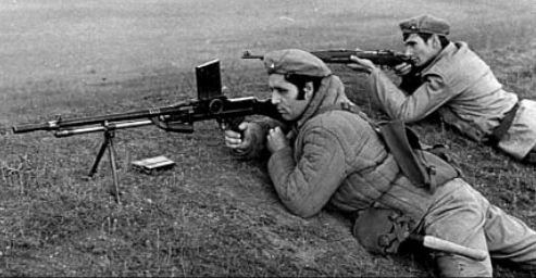 Romanian Patriotic Guards training.